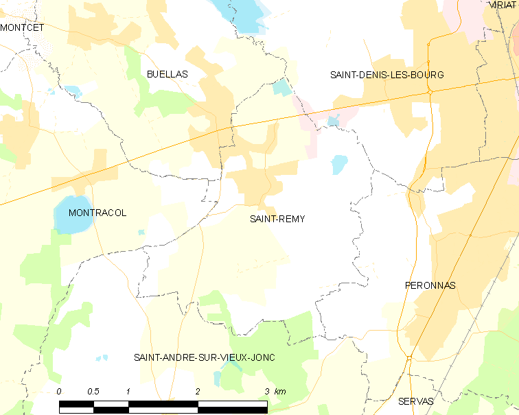 Map of French commune: Saint-Rémy Map commune FR insee code 01385.png